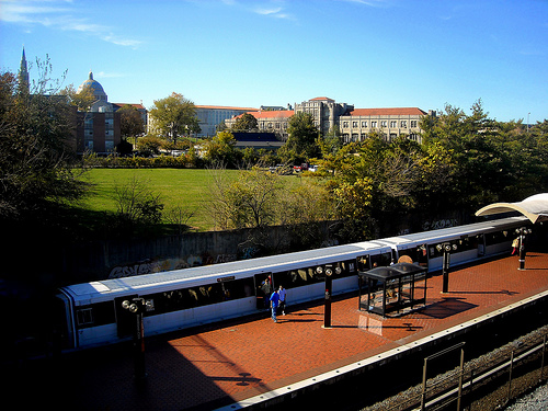 Brookland-CUA Metro station in Washington The Basilica of the National Shrine of the Immaculate Conception on the Catholic University of America campus is in the background.